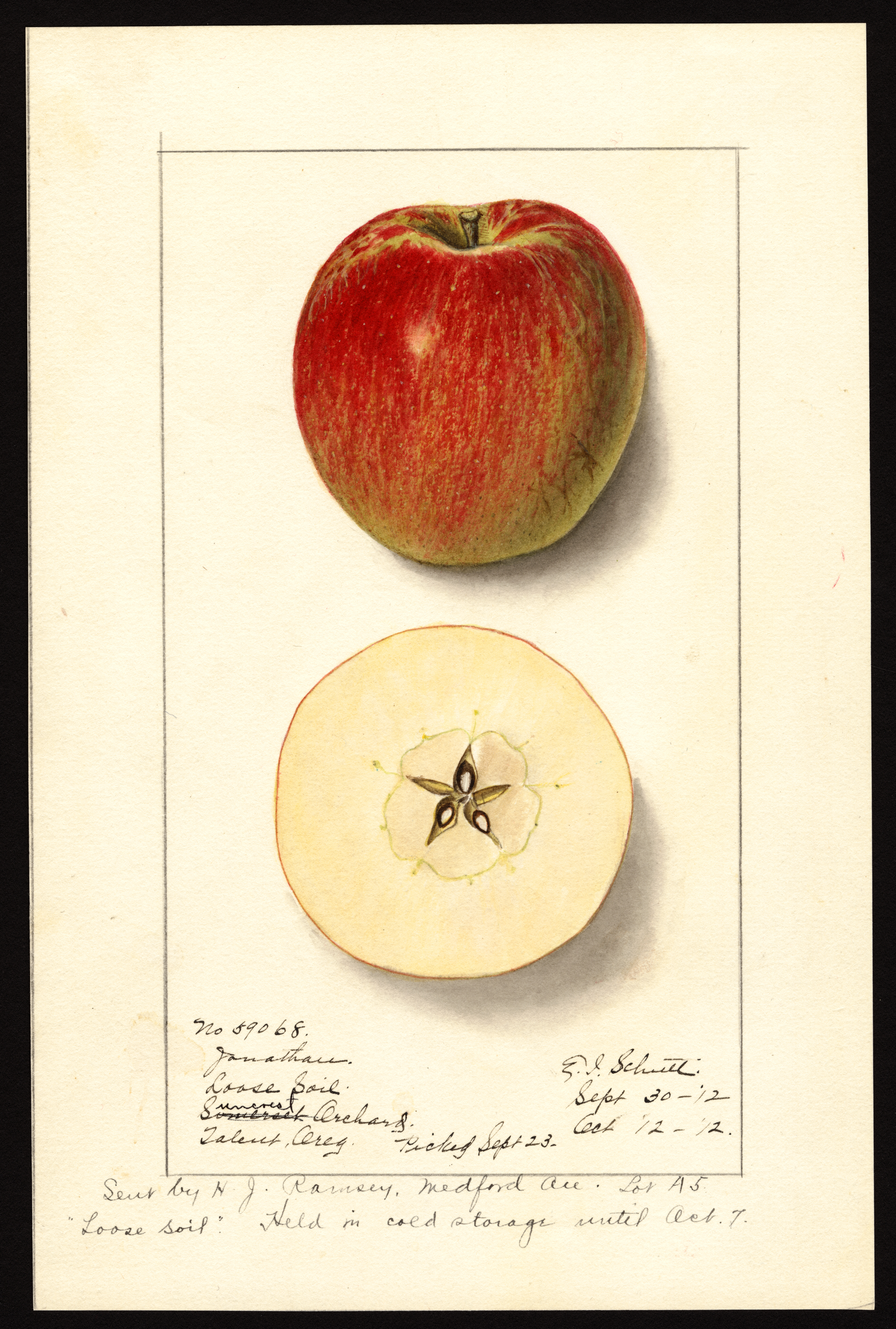 Image of the Jonathan variety of apples (scientific name: Malus domestica), with this specimen originating in Talent, Jackson County, Oregon, United States. Source: U.S. Department of Agriculture Pomological Watercolor Collection. Rare and Special Collections, National Agricultural Library, Beltsville, MD 20705.